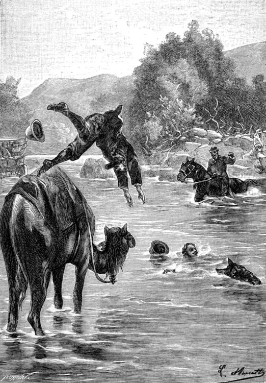 An ilustration from the novel "Clovis Dardentor" by Jules Verne drawn by Léon Benett.